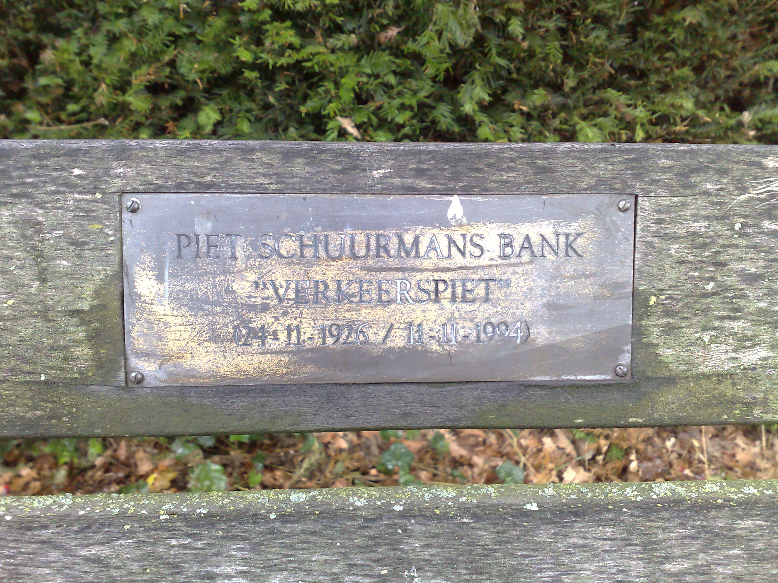 Bench to commencorate Piet Schuurman, in Vucht, NL, near the crossing of the Glorieuxlaan and the A2 highway.